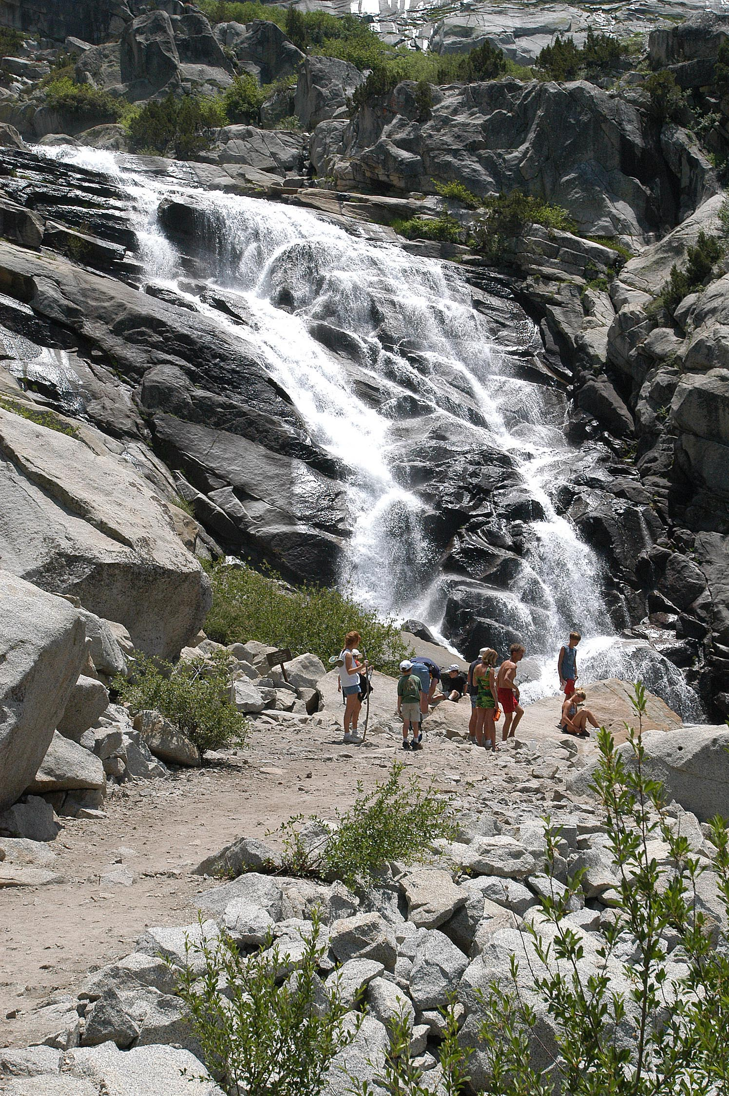 REACHED BY THE TOKOPAH FALLS TRAIL – 1.7 MILES ALONG THE KAWEAH RIVER TO THE FALLS WHICH IS 1200 FEET HIGH